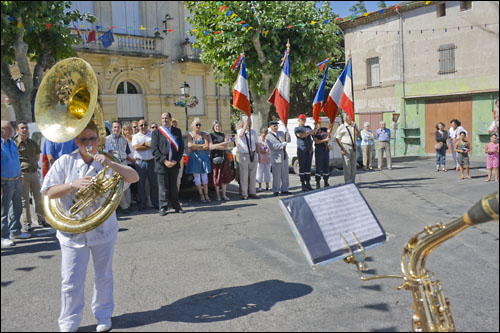 The Bastille Day parade in Cazouls les Beziers, Languedoc, France.